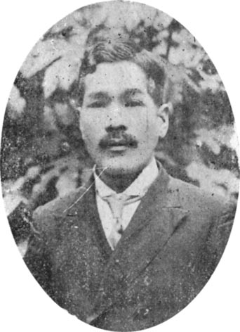 Mr. Kiyomaru Kōno.